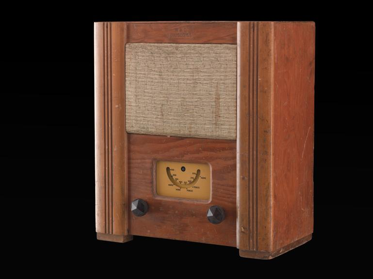 Wartime civilian receiver A.C.mains type, Wartime Joint Enterprise, British, 1944-1945